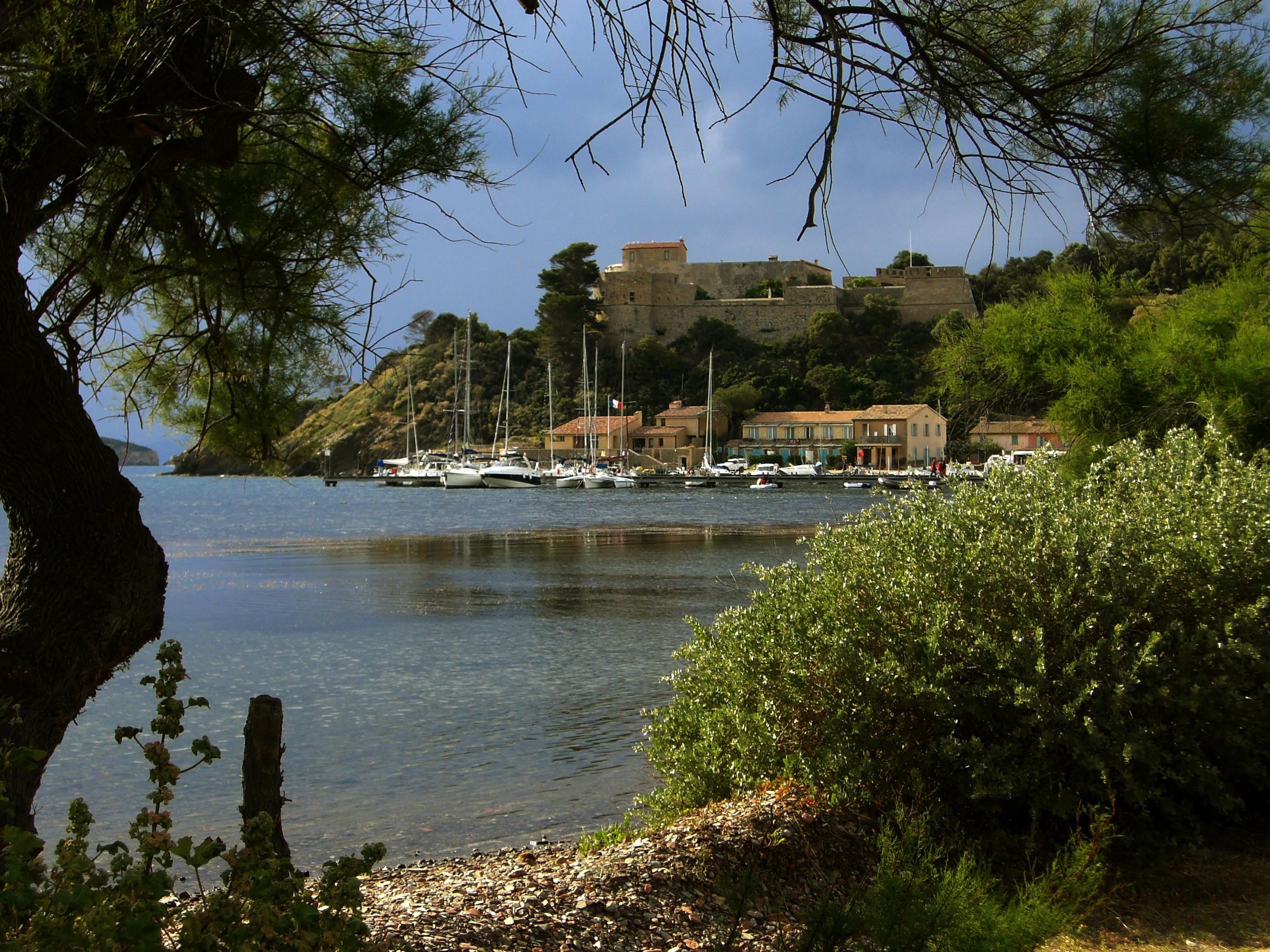 Port of Port Cros, France